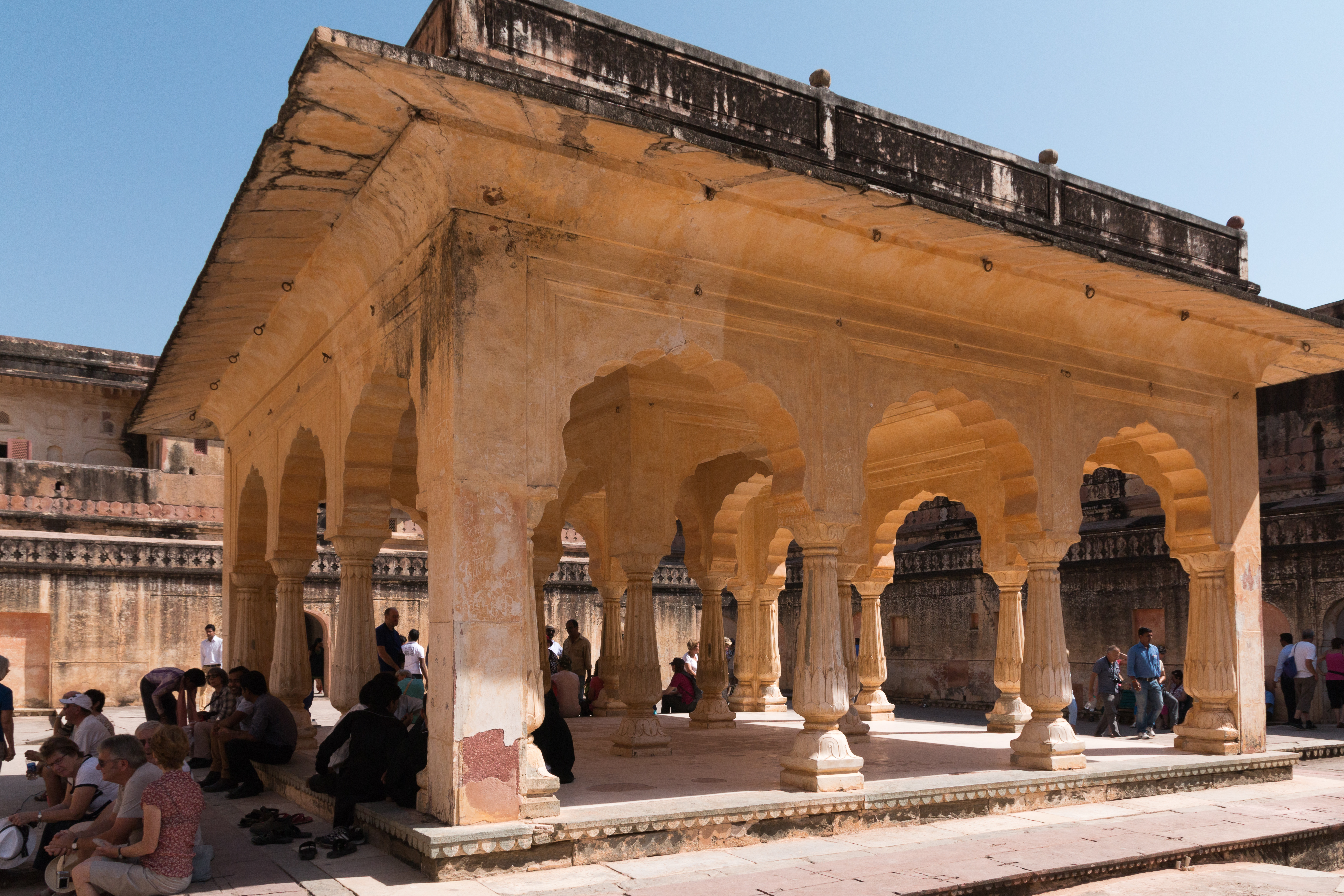 Baradi where the Rana received his favorite, in the middle of the court of delights.